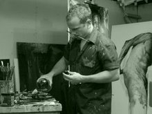 Jason Shawn Alexander at work in Studio